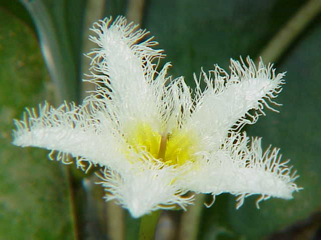 Species: Nymphoides indica Family: Menyanthaceae Image No. 3